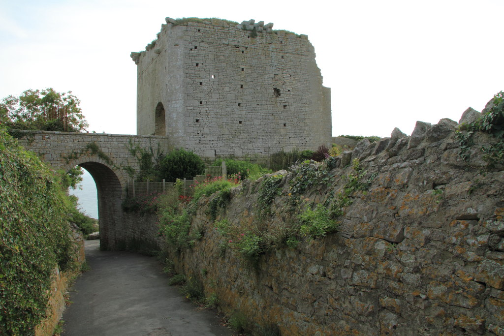 Rufus Castle Portland Dorset